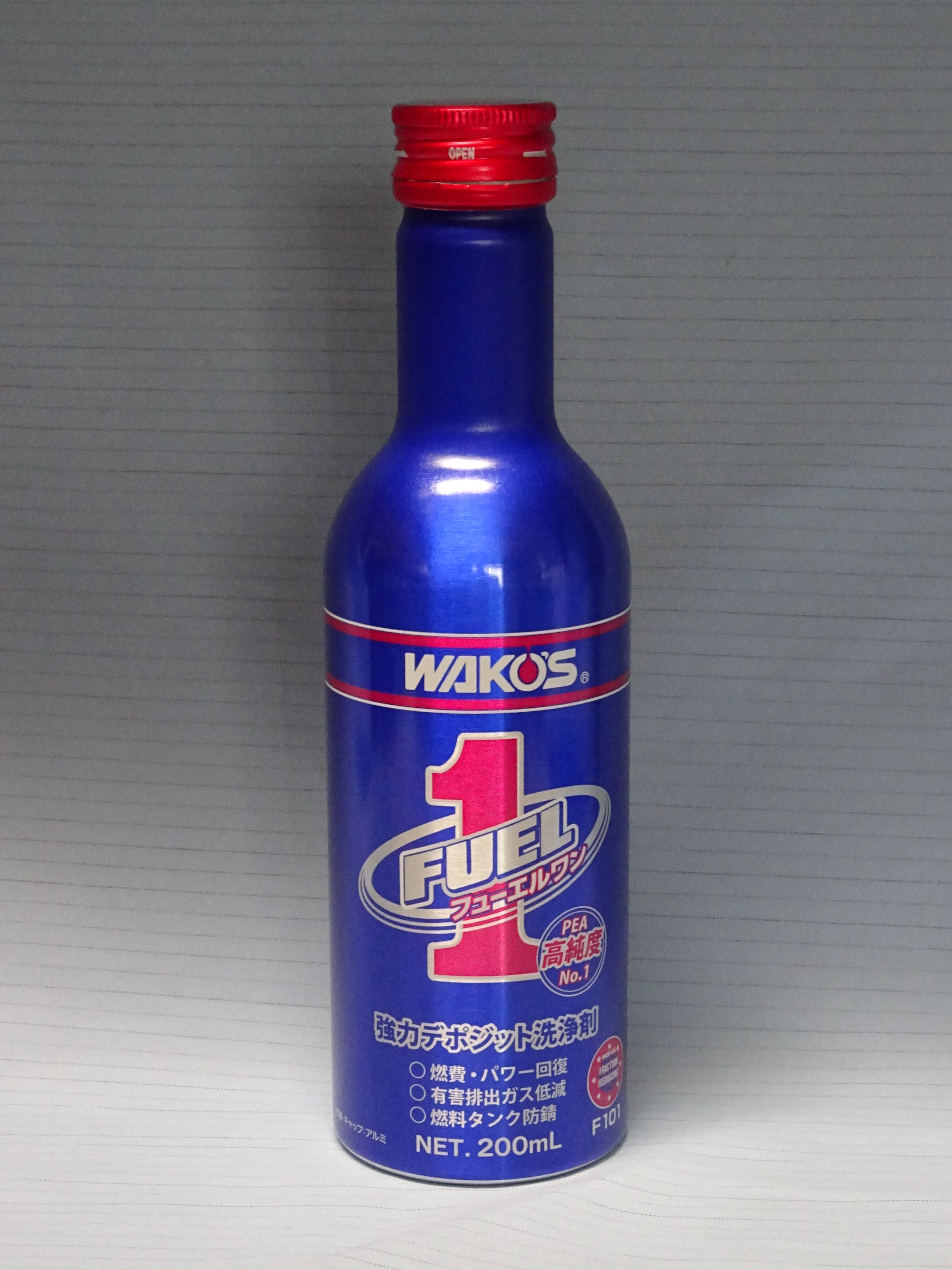 WAKO'S FUEL1